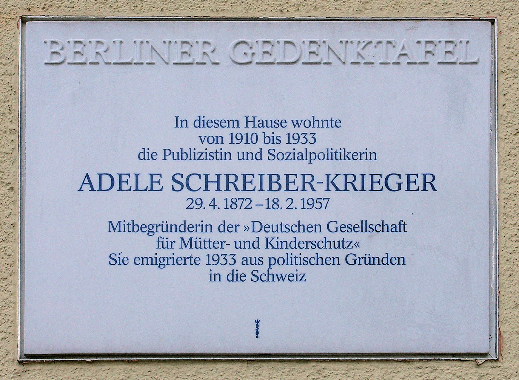 Berlin memorial plaque, Adele Schreiber-Krieger, Ahornallee 50, Berlin-Westend, Germany